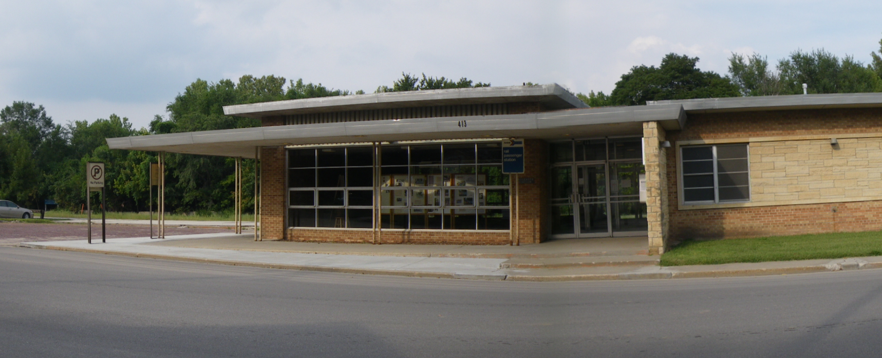 Exterior of the Lawrence Amtrak Station (Santa Fe depot) in Lawrence, Kansas facing northeast.